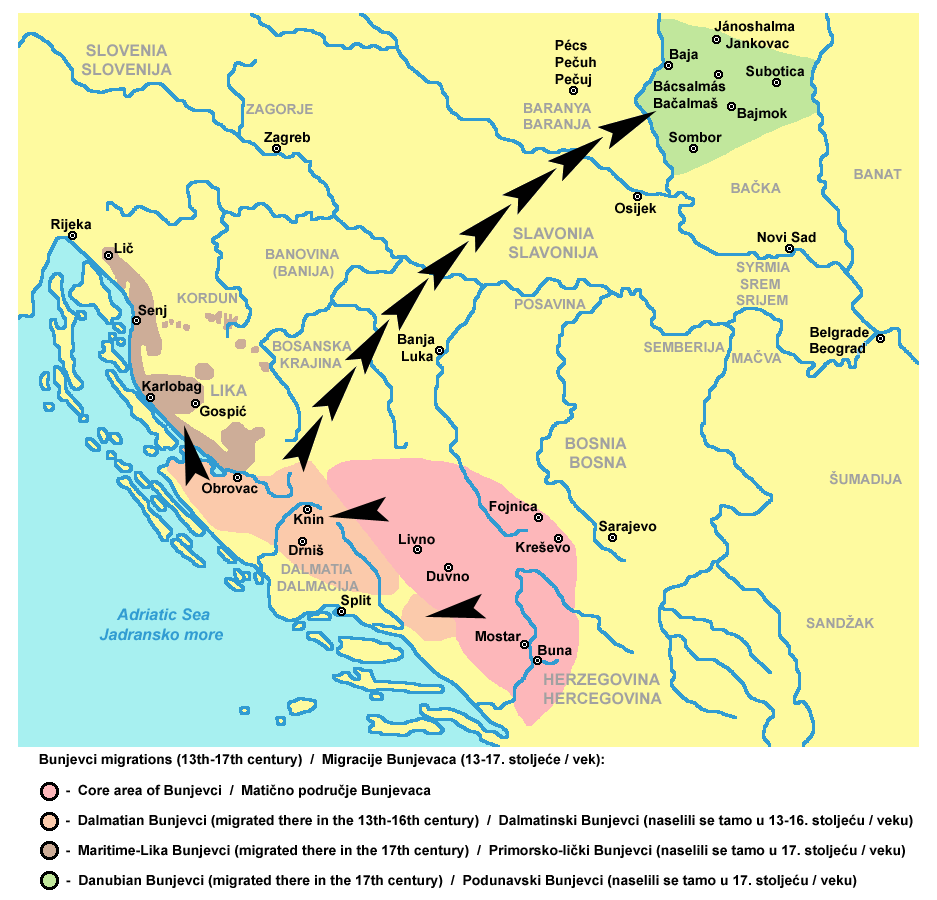 Bunjevci migrations (13th-17th century).Srpskohrvatski / српскохрватски: Migracije Bunjevaca (13-17. stoljeće / vek).